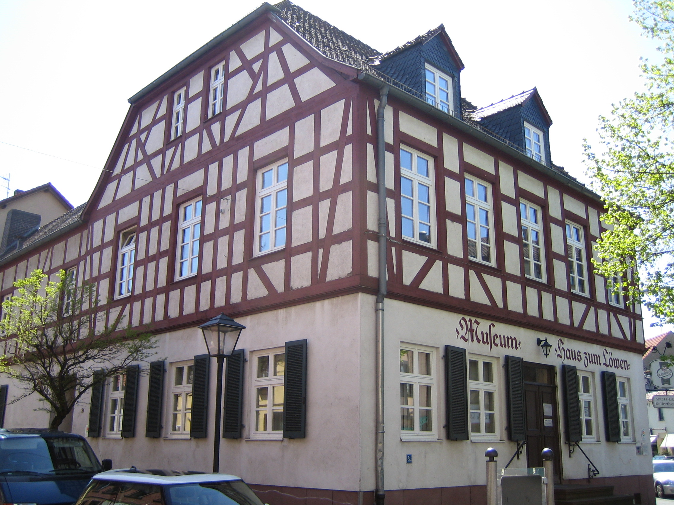 “Haus zum Löwen” in Neu-Isenburg, Germany. Built in 1702, it was one of the first buildings of Neu-Isenburg. A tavern (Au lion d´Or) until 1918, it´s now the museum of local history.